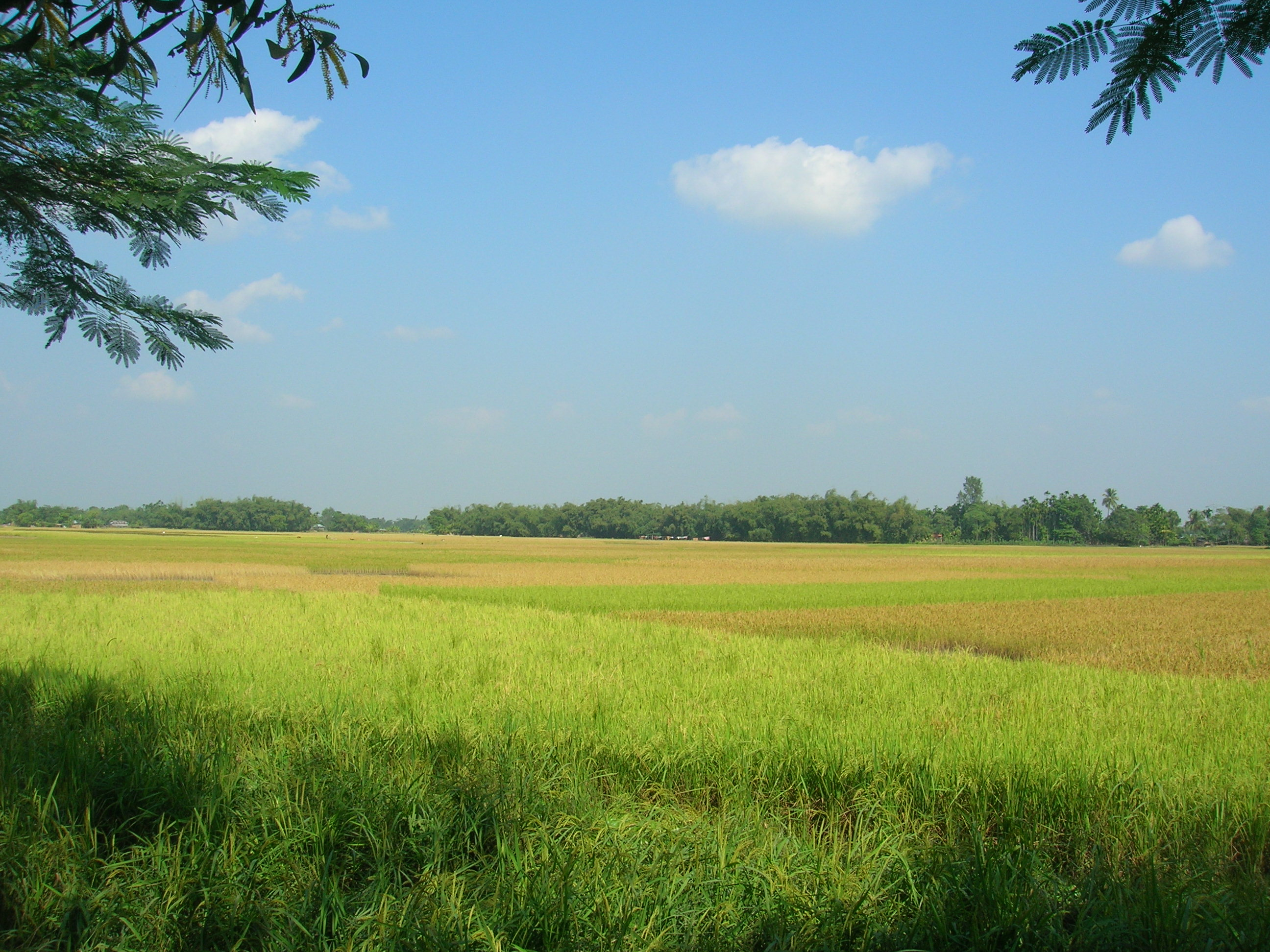 Paddy field in the month of Agrahayana in Jalpaiguri dist., West Bengal.